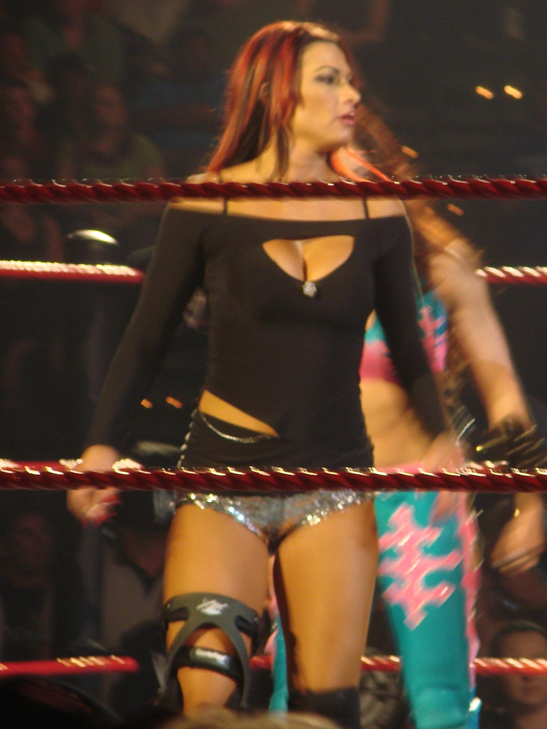 Victoria at WWE Raw. Nashville Arena, Nashville, TN, April 302007. Taken by me. Melina in the background.